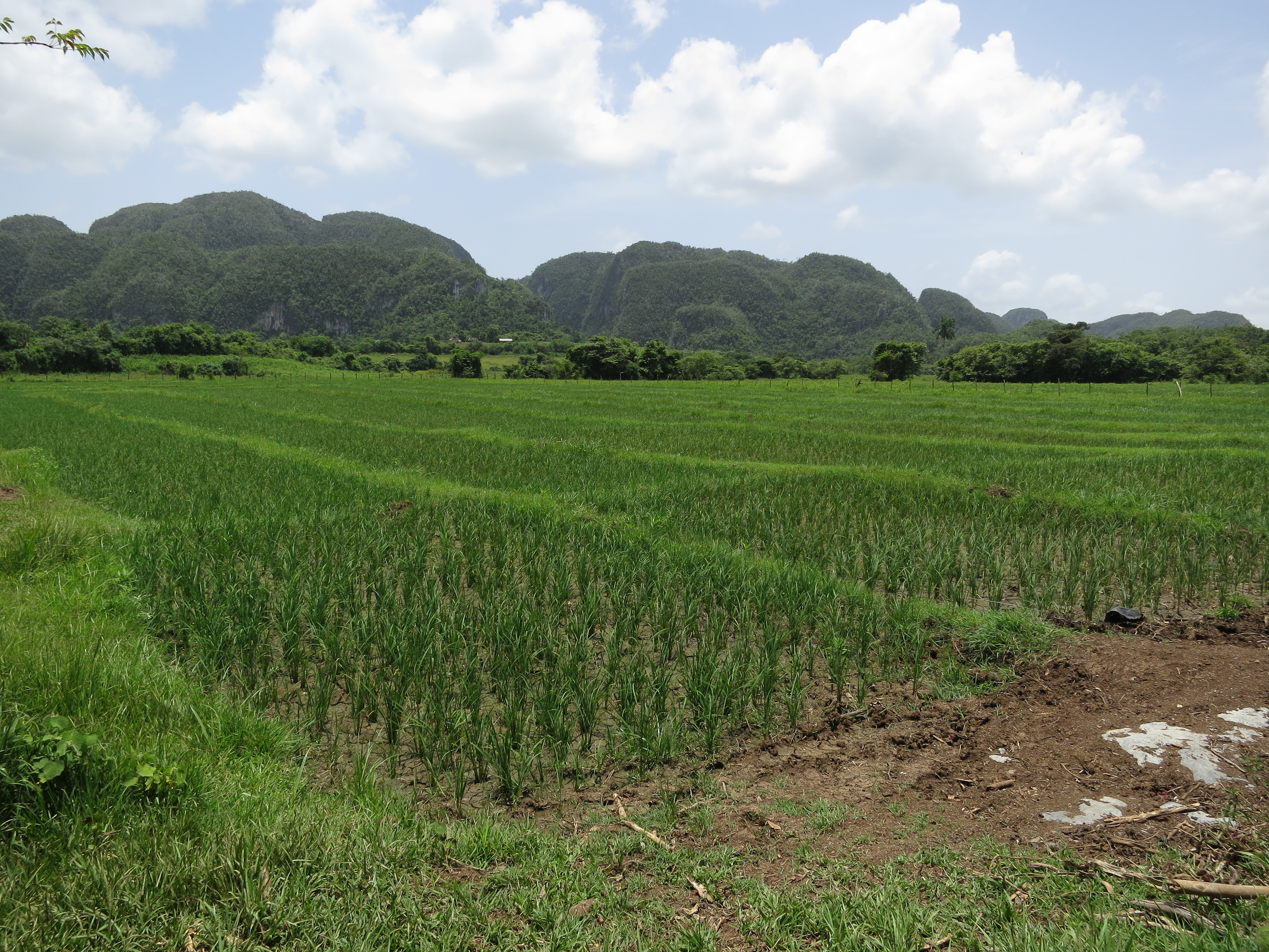 Rice fields near Viñales, Cuba.